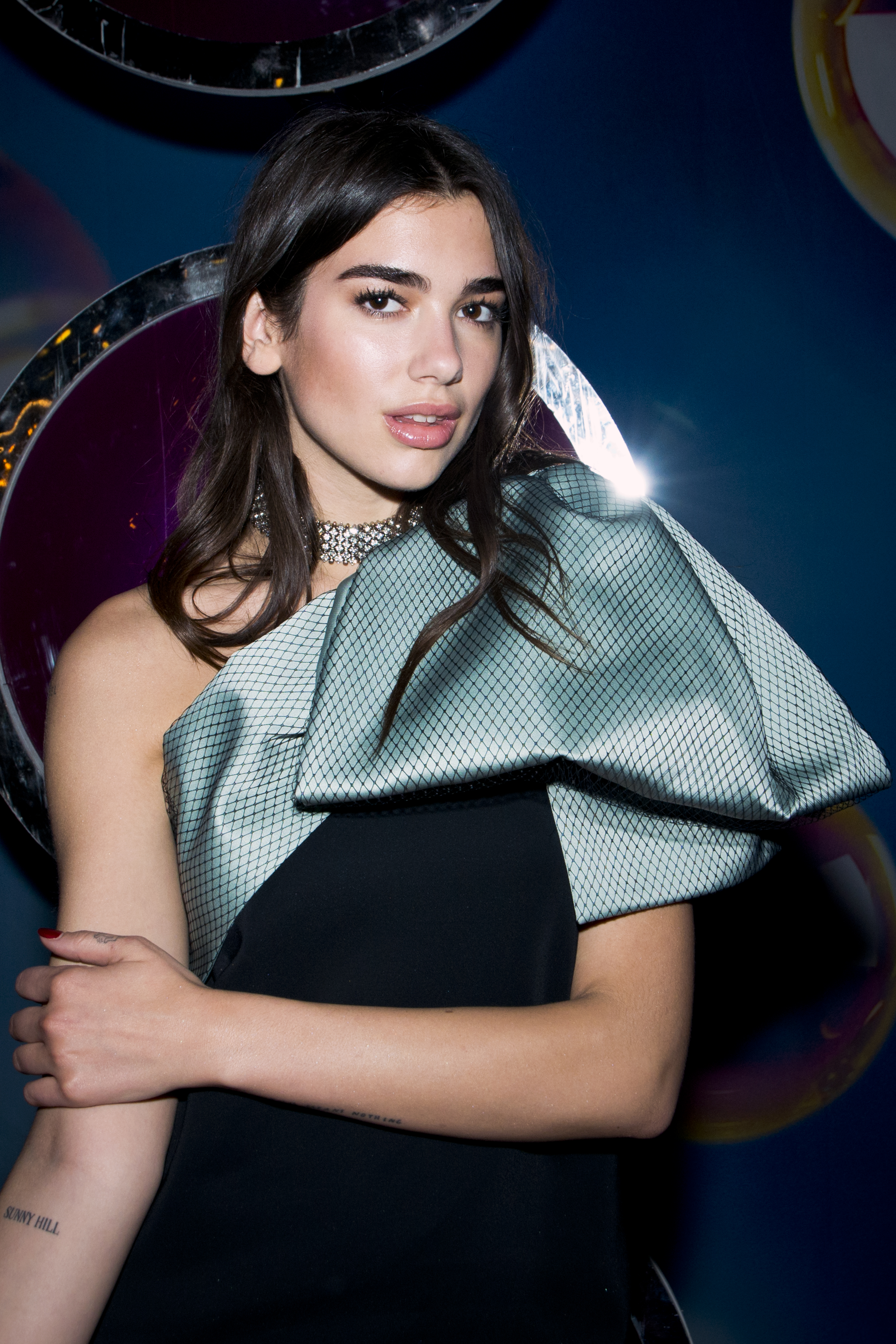 Dua Lipa perform in swedish tv show Sommarkrysset at Gröna Lund, Stockholm, Sweden.